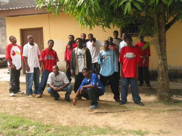 Tuck Tyght Allstars in a group photo